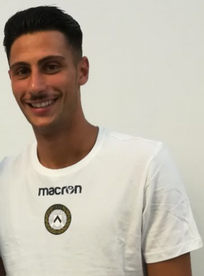 Italian footballer Rolando Mandragora with Udinese Calcio in the 2018–19 season.